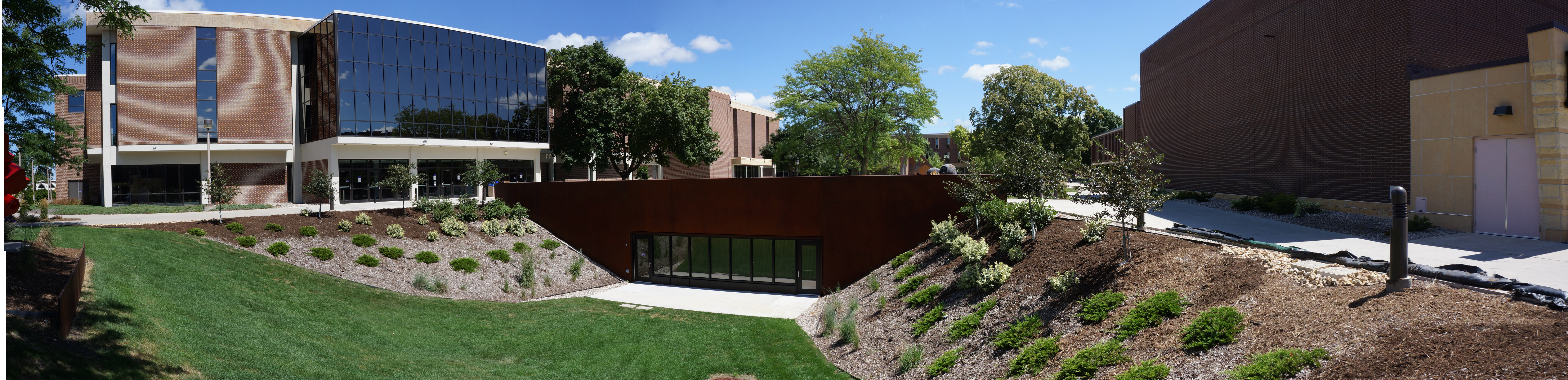 The MSU Main Library and a amphitheater area in the main courtyard on the Minnesota State University, Mankato campus.